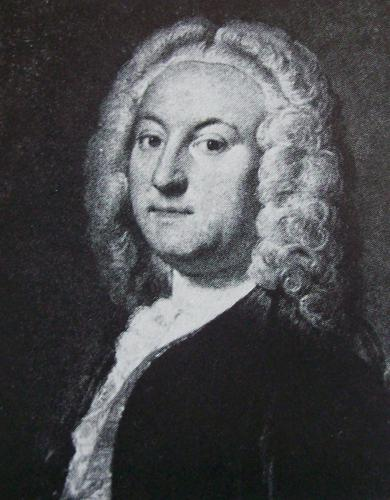 Copy of photo of portrait of Gilbert Walmesley, early friend of Samuel Johnson